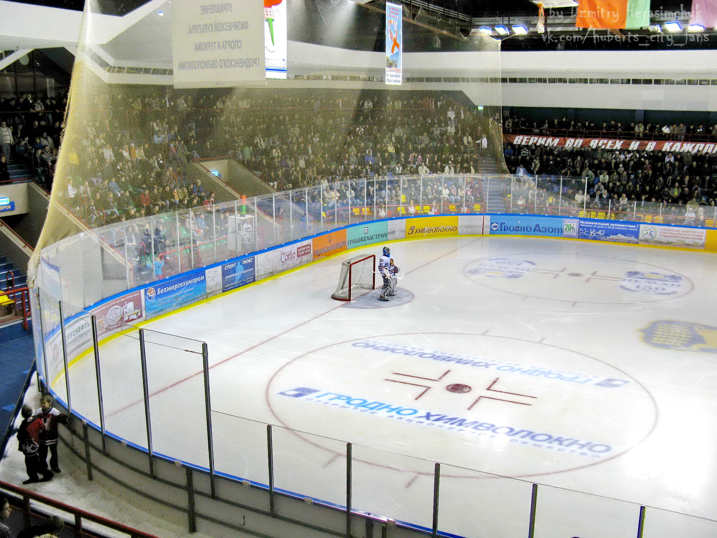 In the Grodno Ice Sports Palace during the game sector 1